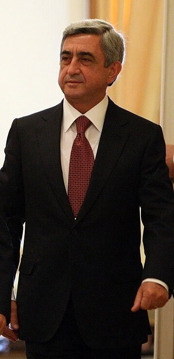 President of Armenia Serzh Sargsyan (20 August 2010).